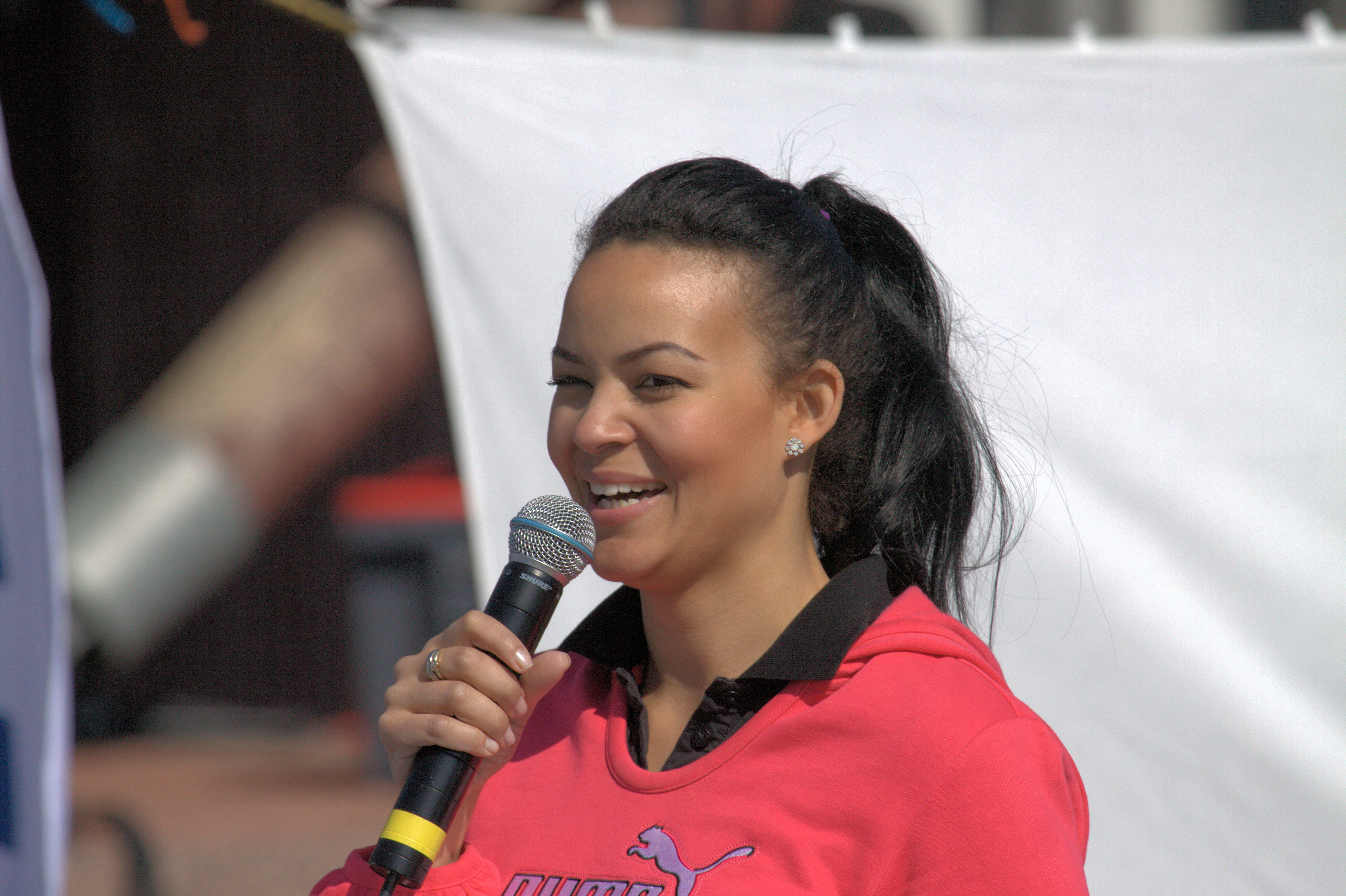 Finnish model Lola Wallinkoski